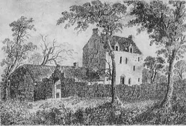 Frontispiece to the 1839 edition of A Philosophy of Witchcraft, published by Murray and Stewart of Paisley.